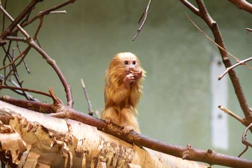 A golden lion tamarin (Leontopithecus rosalia) juvenile in Toronto Zoo.